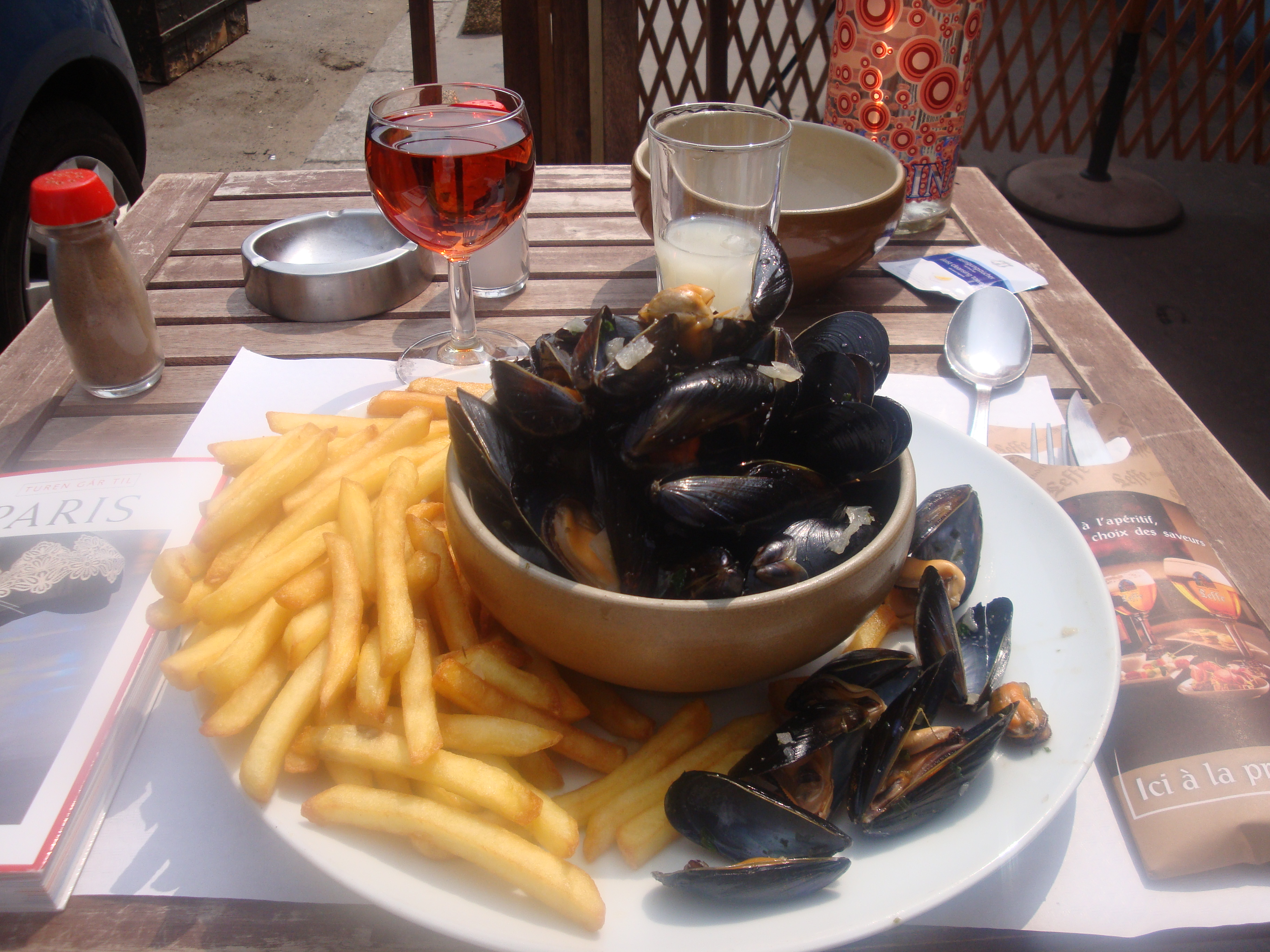 A meal of moules frites, Moules Mariniere and fries, with watered pastis and glass of rose.